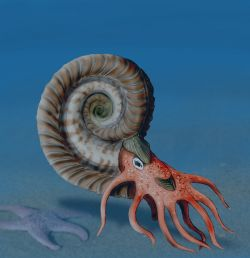 Hildoceras